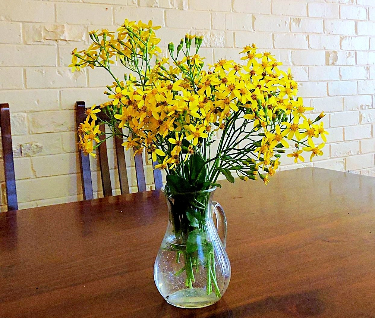 Beautiful yellow cut flowers of Creeping Groundsel